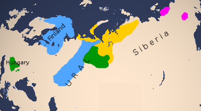 Distribution of uralic languages